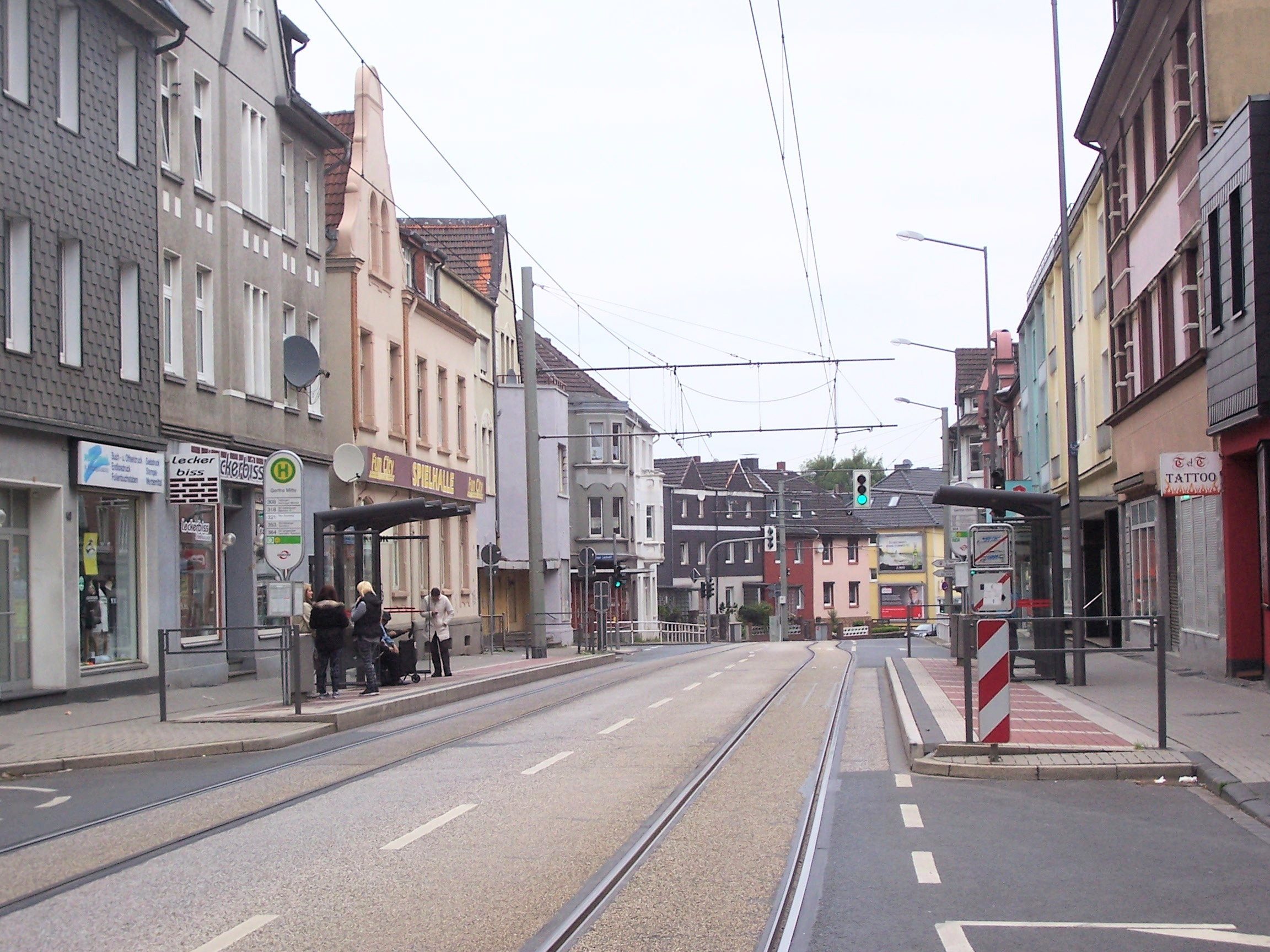 Tram stop Gerthe Mitte in Bochum.